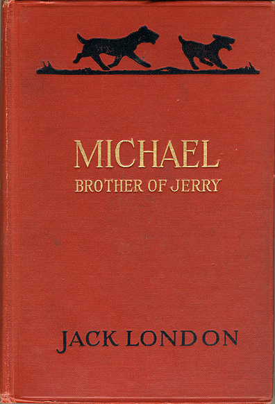 Cover of the edition of 1917, The Macmillan Company